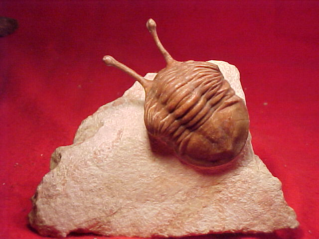 Asaphus kowalewskii (Trilobite). This trilobite came from Ordovician-age strata near St. Petersburg, Russia. The eyestalks practically never come out of the matrix intact, since they are so fragile. At least one of these had to be glued back on.